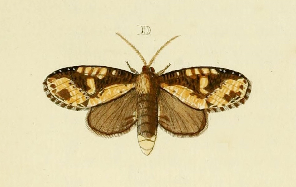 Disphragis tharis in Volume 4 of "De uitlandsche kapellen: voorkomende in de drie waereld-deelen Asia, Africa en America = Papillons exotiques des trois parties du monde, l'Asie, l'Afrique et l'Amérique